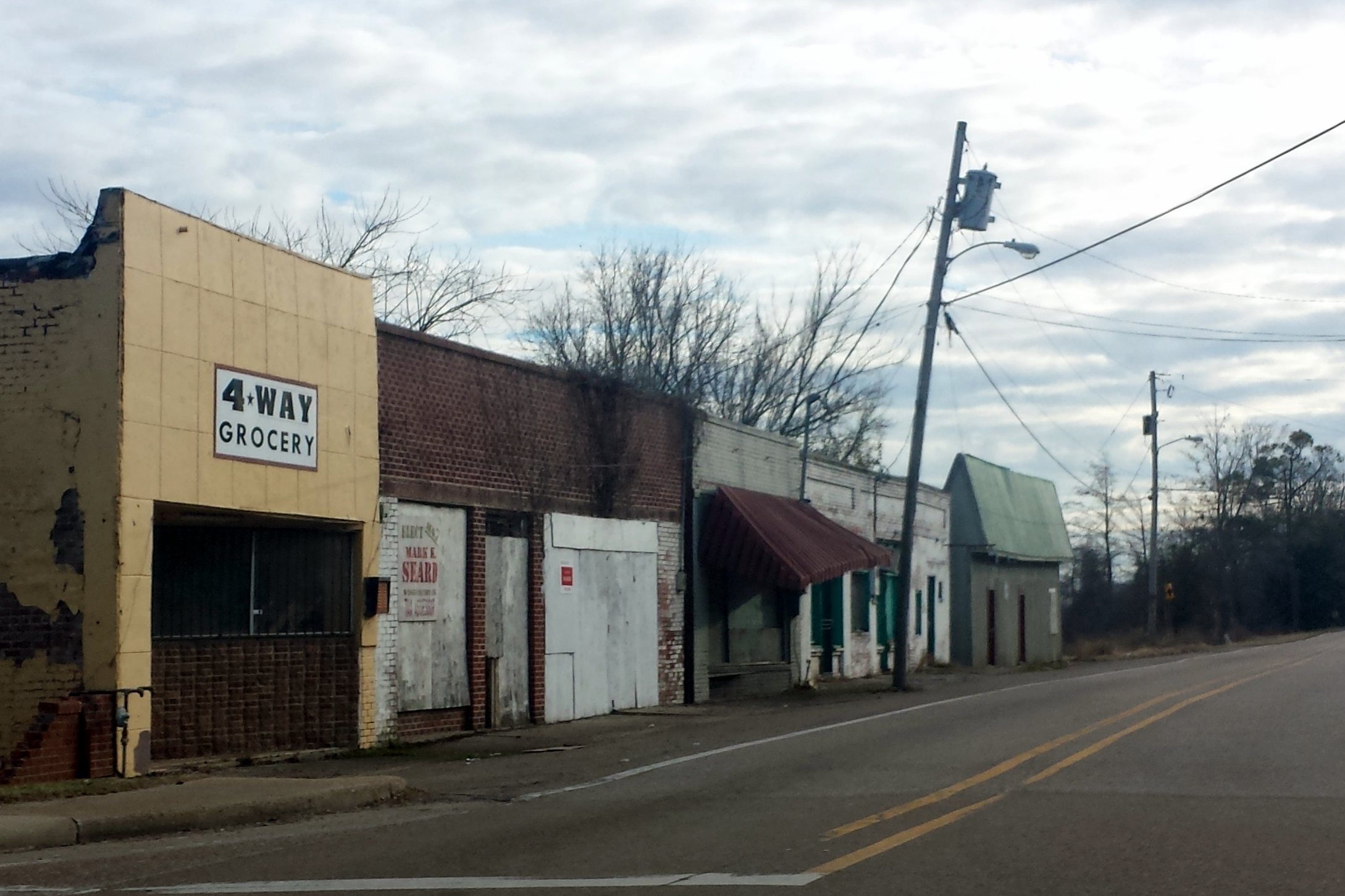 Downtown Arcola, MS on old US 61 facing south